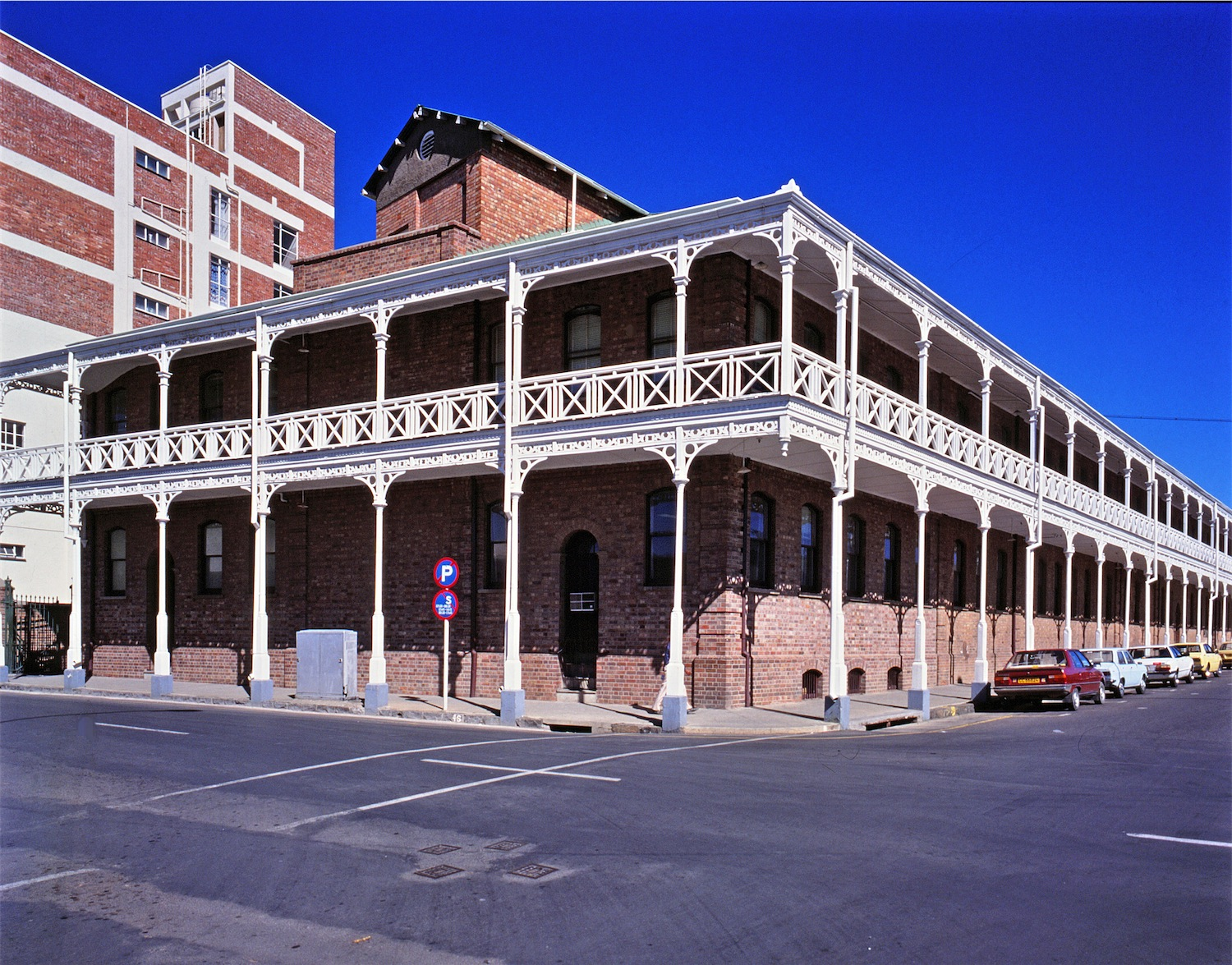 This media shows a South African Protected Site with SAHRA file reference 9/2/049/0008.